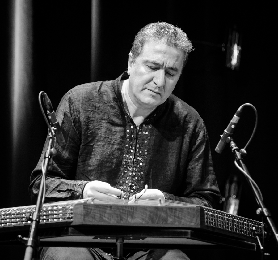 Javid Afsari Rad with Bansal Band at Cosmopolite in Soria Moria. The concert took place on 07. December 2017 in Oslo. Lineup: Javid Afsari Rad (santur), Vojtech Prochazka (harmonium), Adrian Fiskum Myhr (double bass), Andreas Bratlie (tabla and percussion) and Harpreet Bansal (violin and percussion).